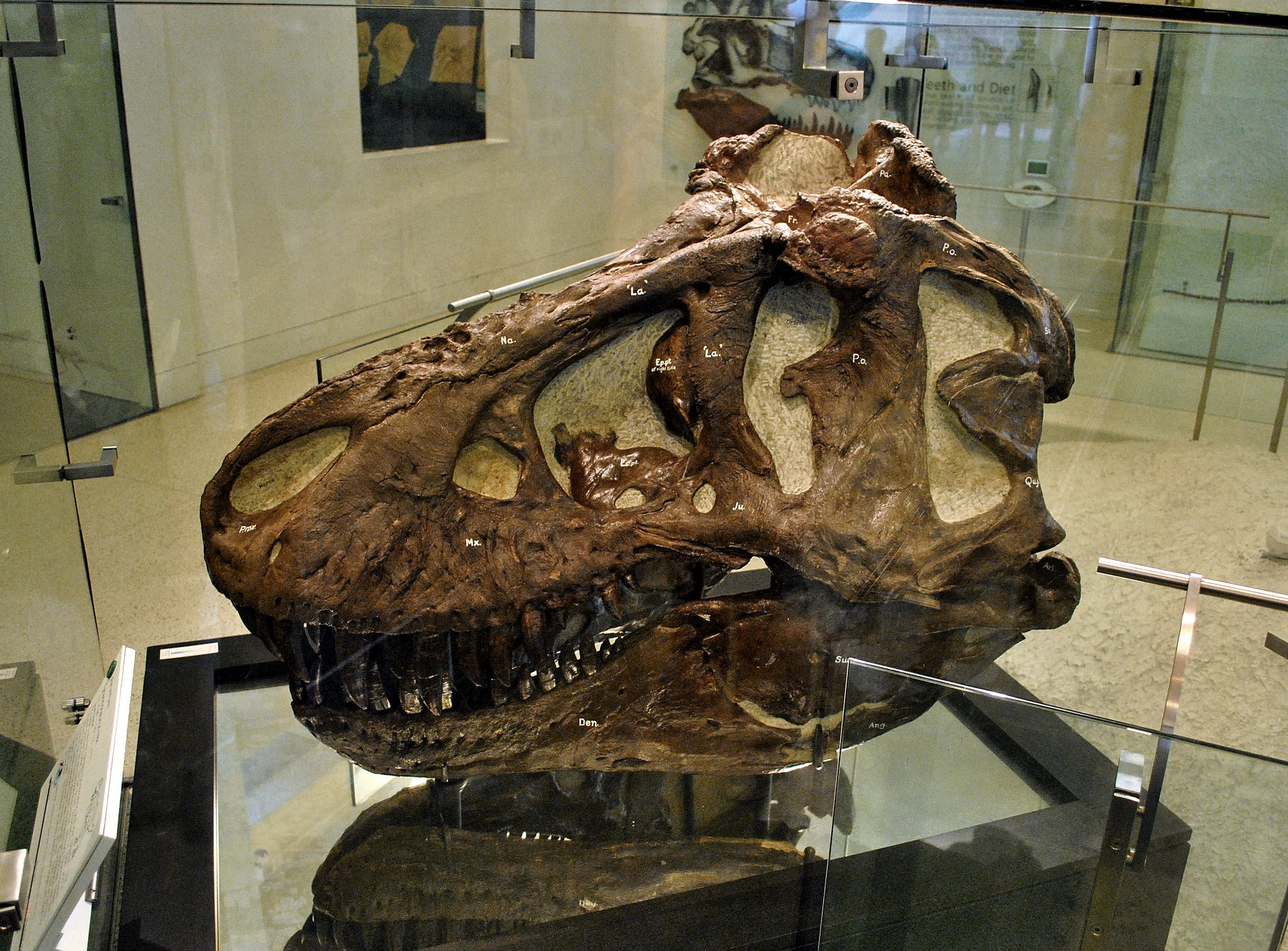 AMNH Hall of Saurischian Dinosaurs